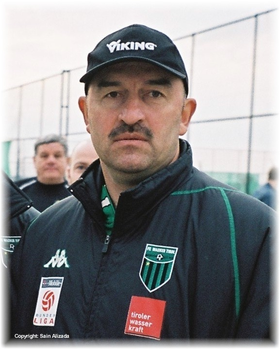 The picture was taken by myself during FC Wacker Tirol training camp in Manavgat, Turkey in early February of 2006.